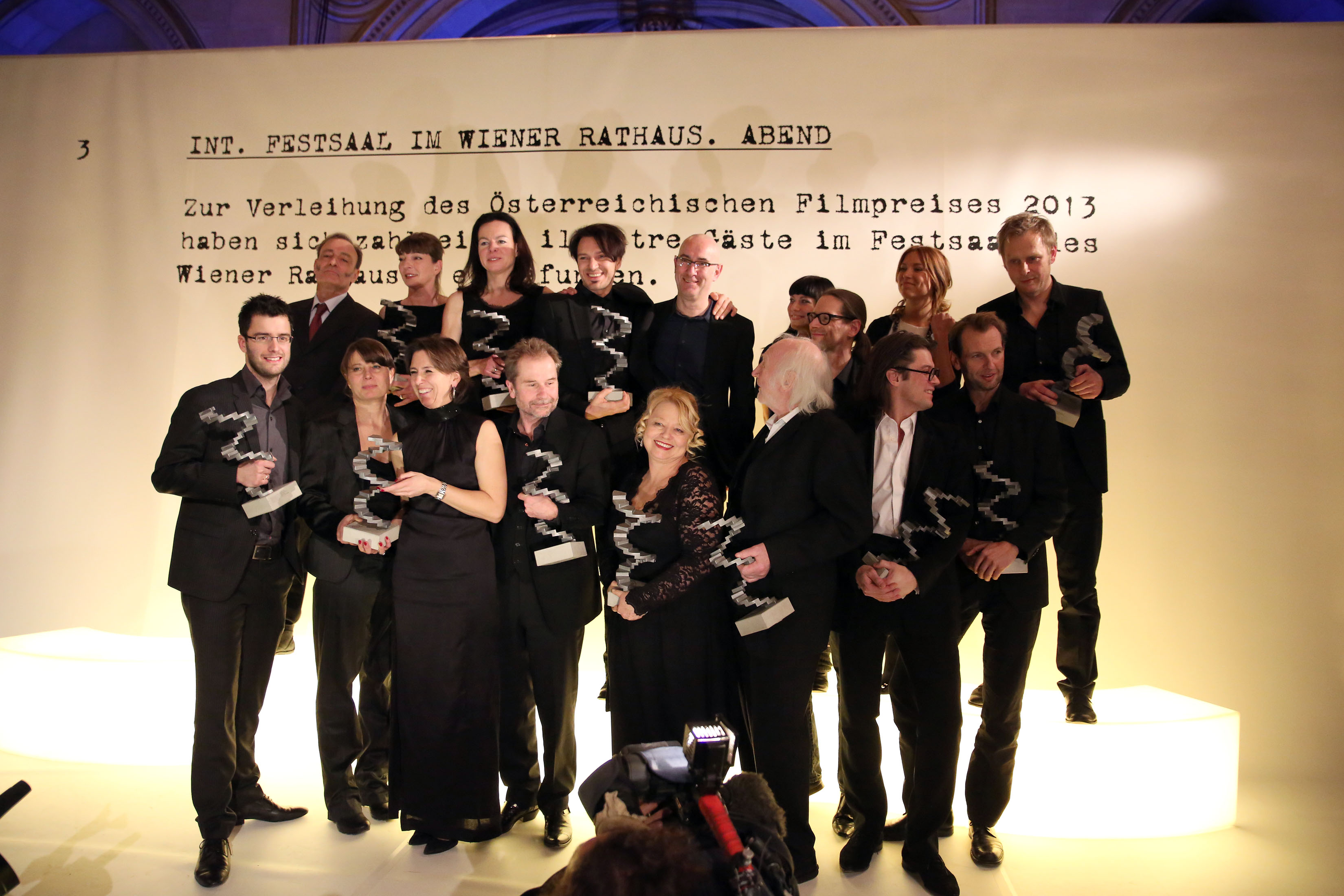 The winners of the Austrian Film Awards 2013 (Vienna).